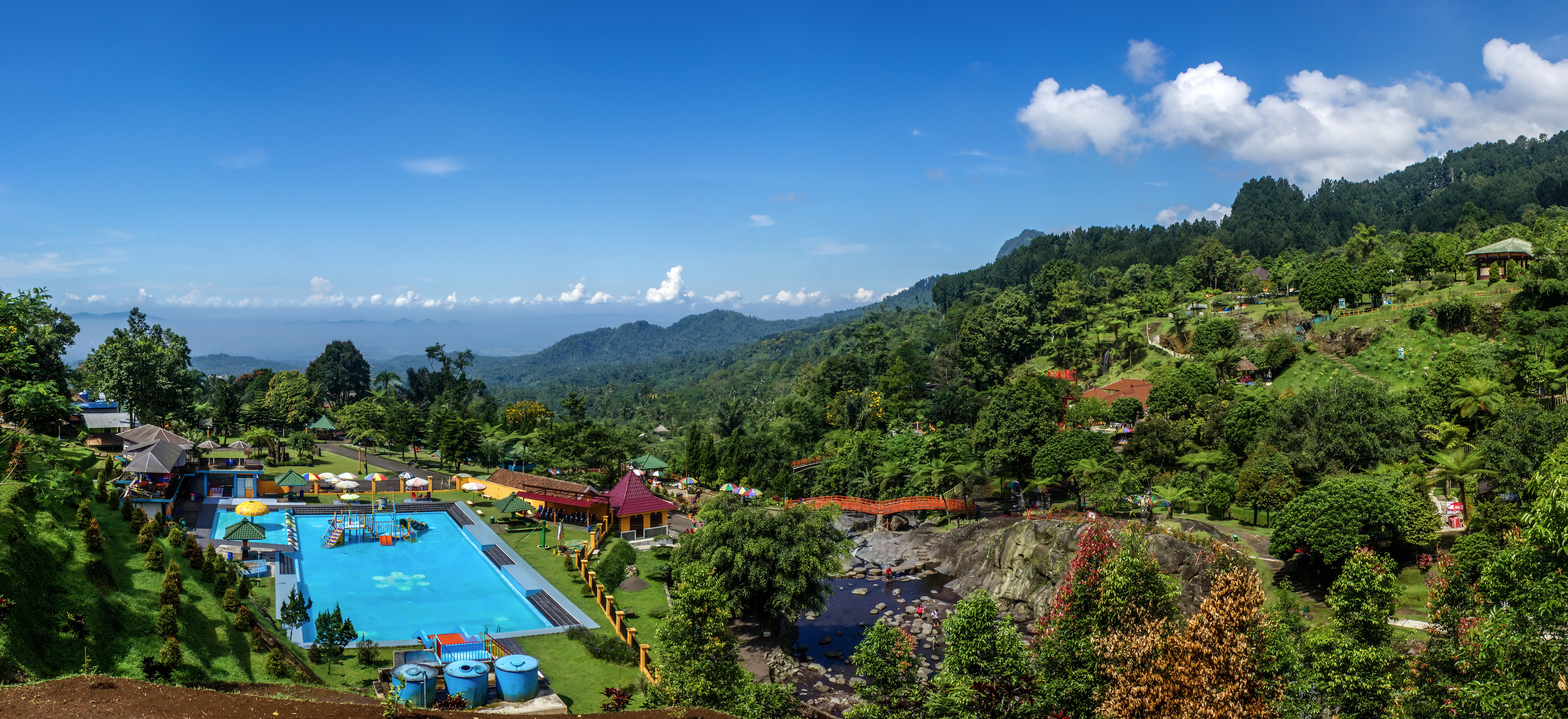 Baturraden overview from ridge, Purwokerto, 2015-03-23